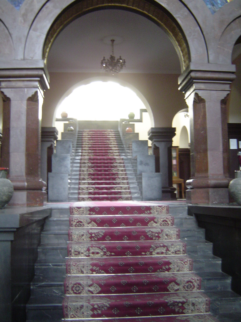 A row of steps in the Matenadaran building in Yerevan.